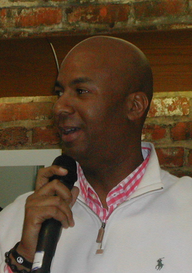 Washington DC Politician Michael A Brown speaking at March 13, 2013, candidates' forum for candidates running in a special election to fill a vacant at-large seat on the DC City Council. The forum was held at So Others May Eat, 71 O Street NW, between 2 - 3:30 pm.